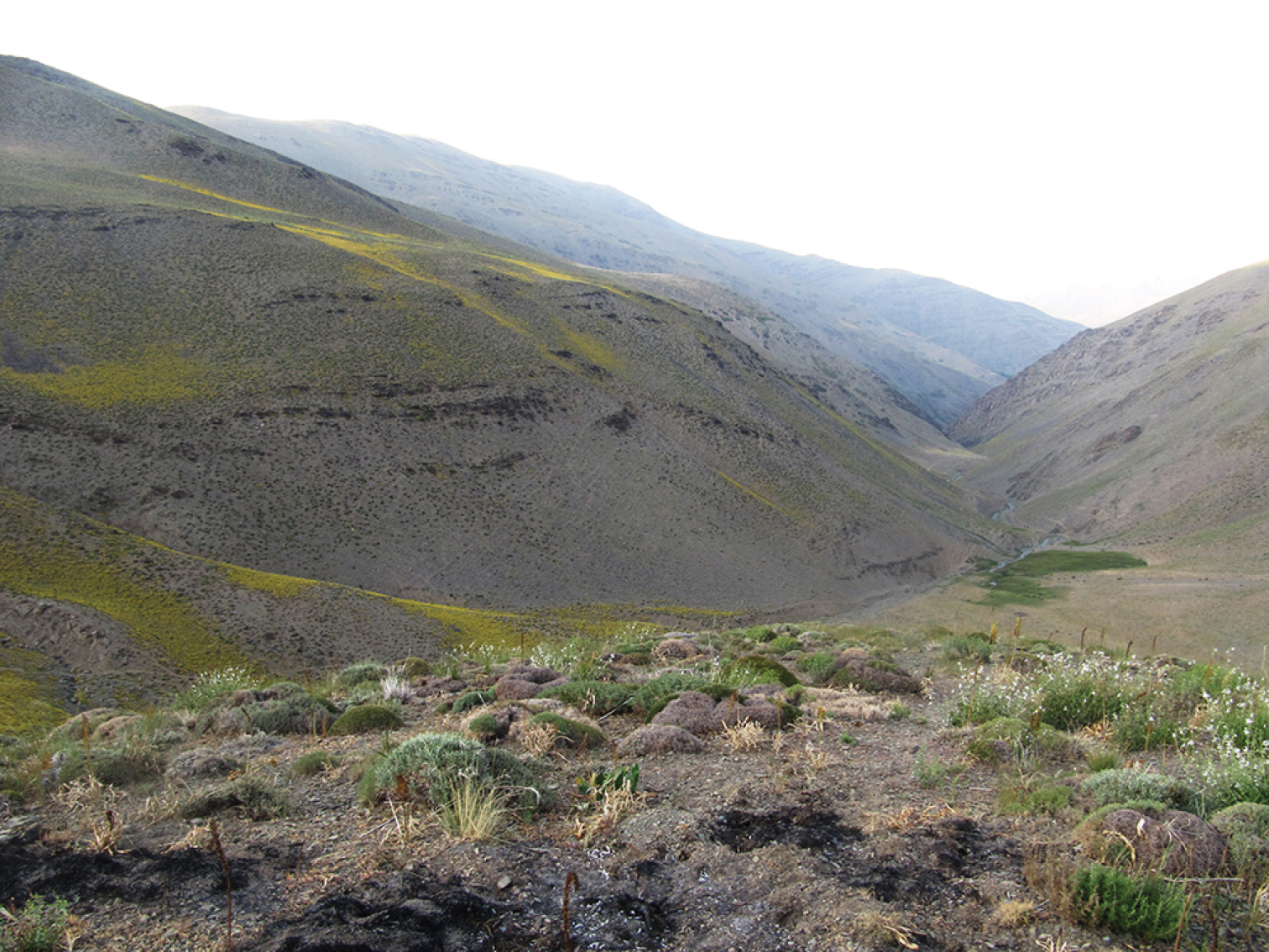 Anagnorisma chamrani habitat on the Binalud Mountain, Iran.